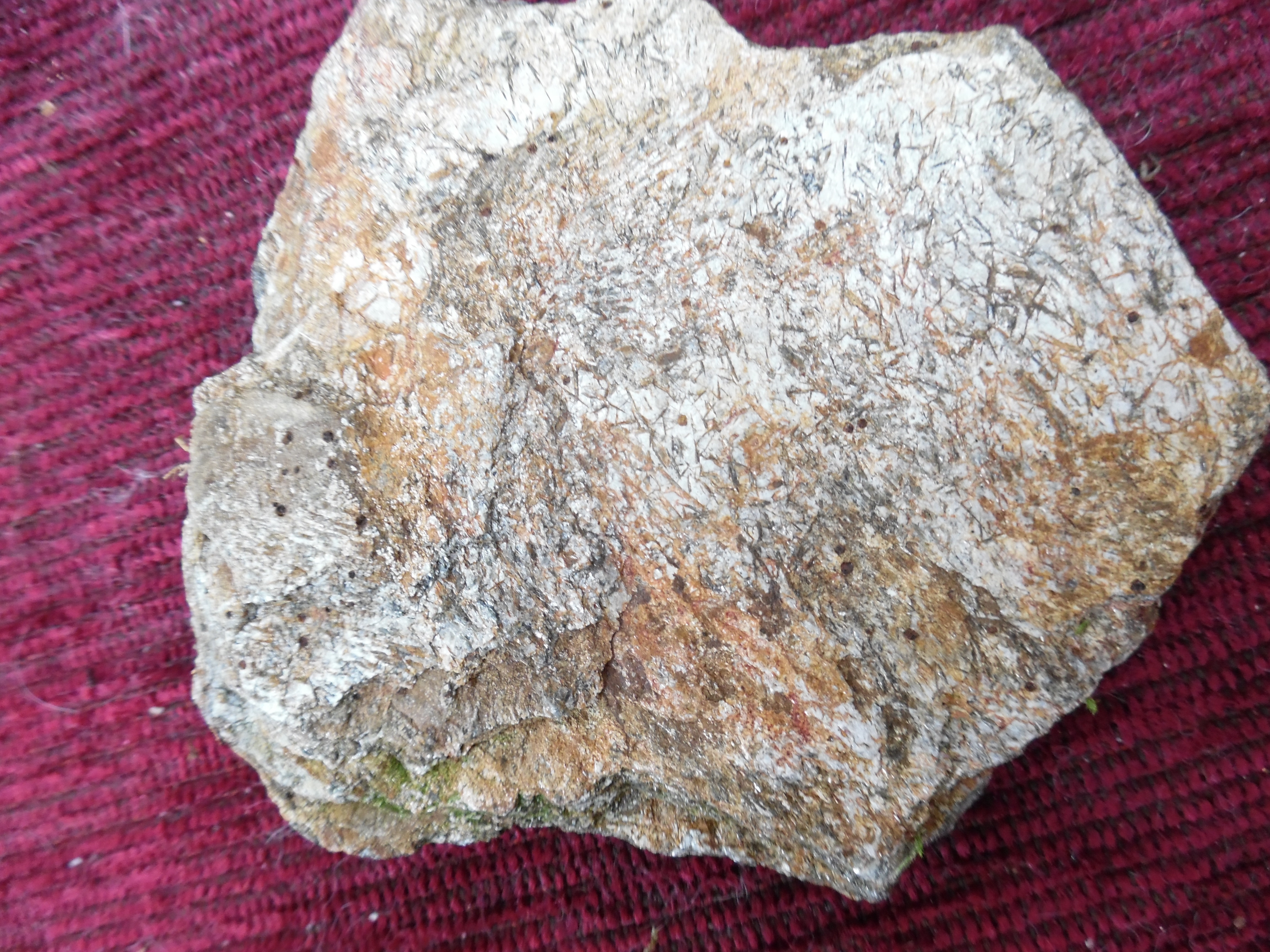 Micaschist from the Parautochthonous Micaschist Unit near Pensol, Haute-Vienne, French Massif Central.